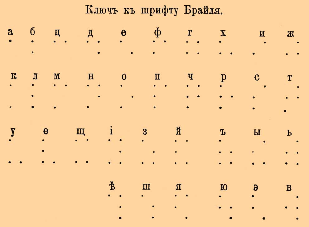 Illustration from Brockhaus and Efron Encyclopedic Dictionary(1890–1907)